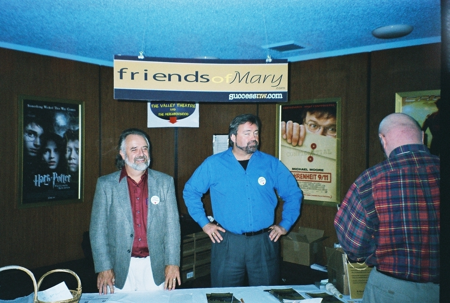 Image description: I took this picture in 2004 at the last Living Enrichment Center church service, held at Valley Theatre in Beaverton. This is the lobby of the Valley Theatre. Mary Manin Morrissey's group "Friends of Mary." Note, both men are wearing buttons that read "Friends of Mary." The sign above their heads advertises Mary Manin Morrissey's two websites at that time, " " and " ." Behind the men one can see posters of upcoming movies. Pictured are Friends of Mary supporters, (l to r) unknown, Doug Johnson. Former Congregant 13:35, 25 February 2007 (UTC)